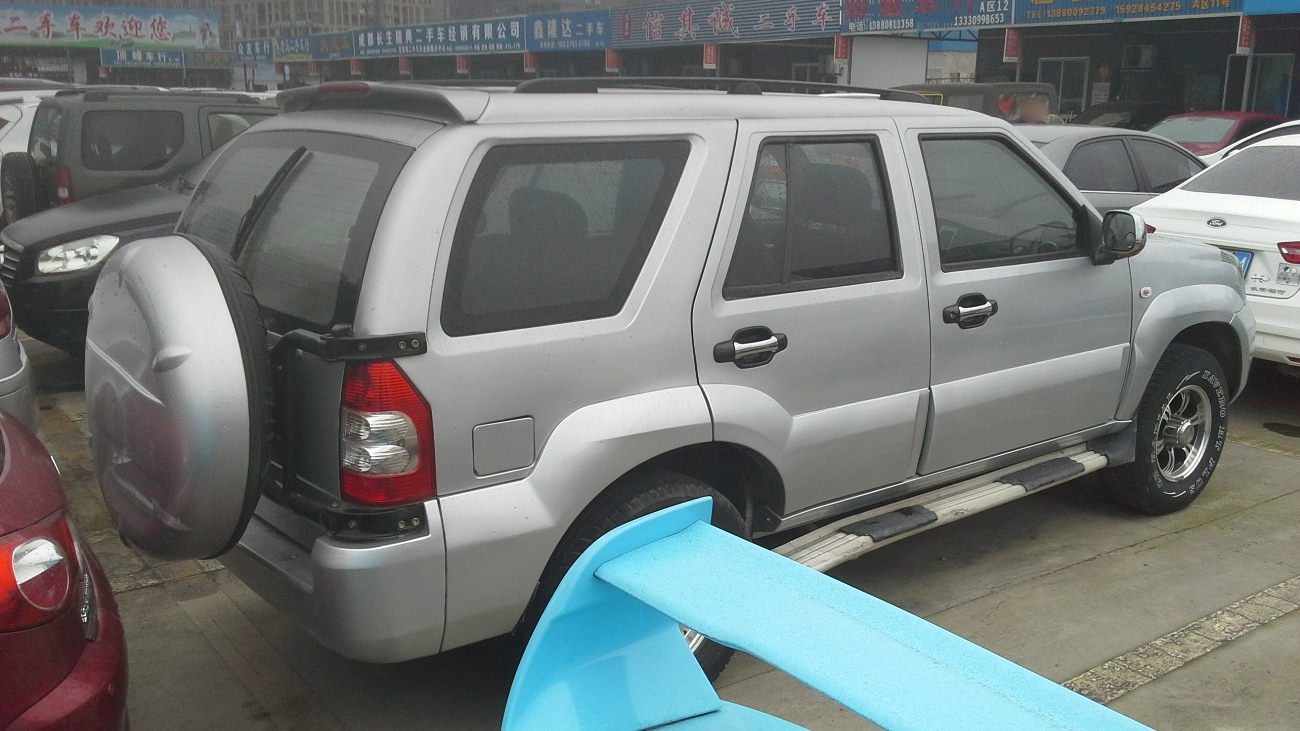 Anchi MC6460 photographed in Chengdu, Sichuan province, China.